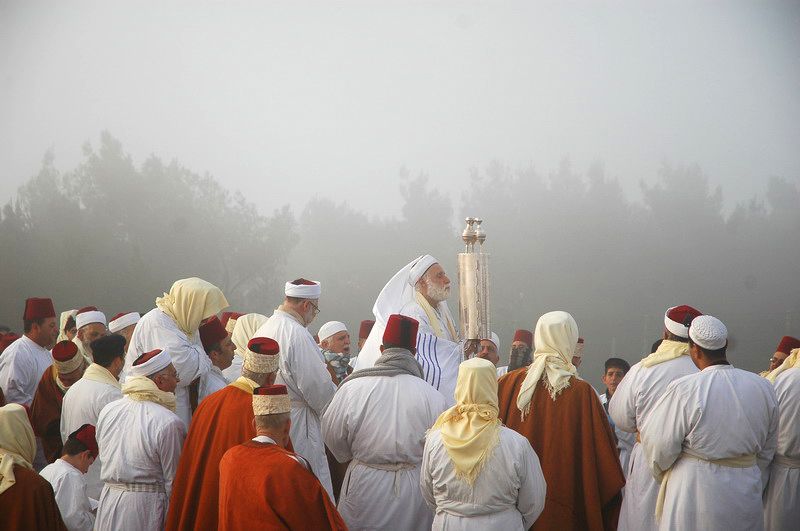 Samaritans' Passover pilgrimage on Mount Gerizim, West Bank.